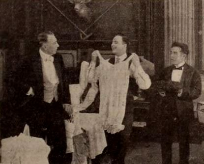 Still from the American comedy film The Countess Charming (1917) with an unidentified actor, Julian Eltinge, and George Kuwa, on page 31 of the September 8, 1917 Exhibitors Herald.